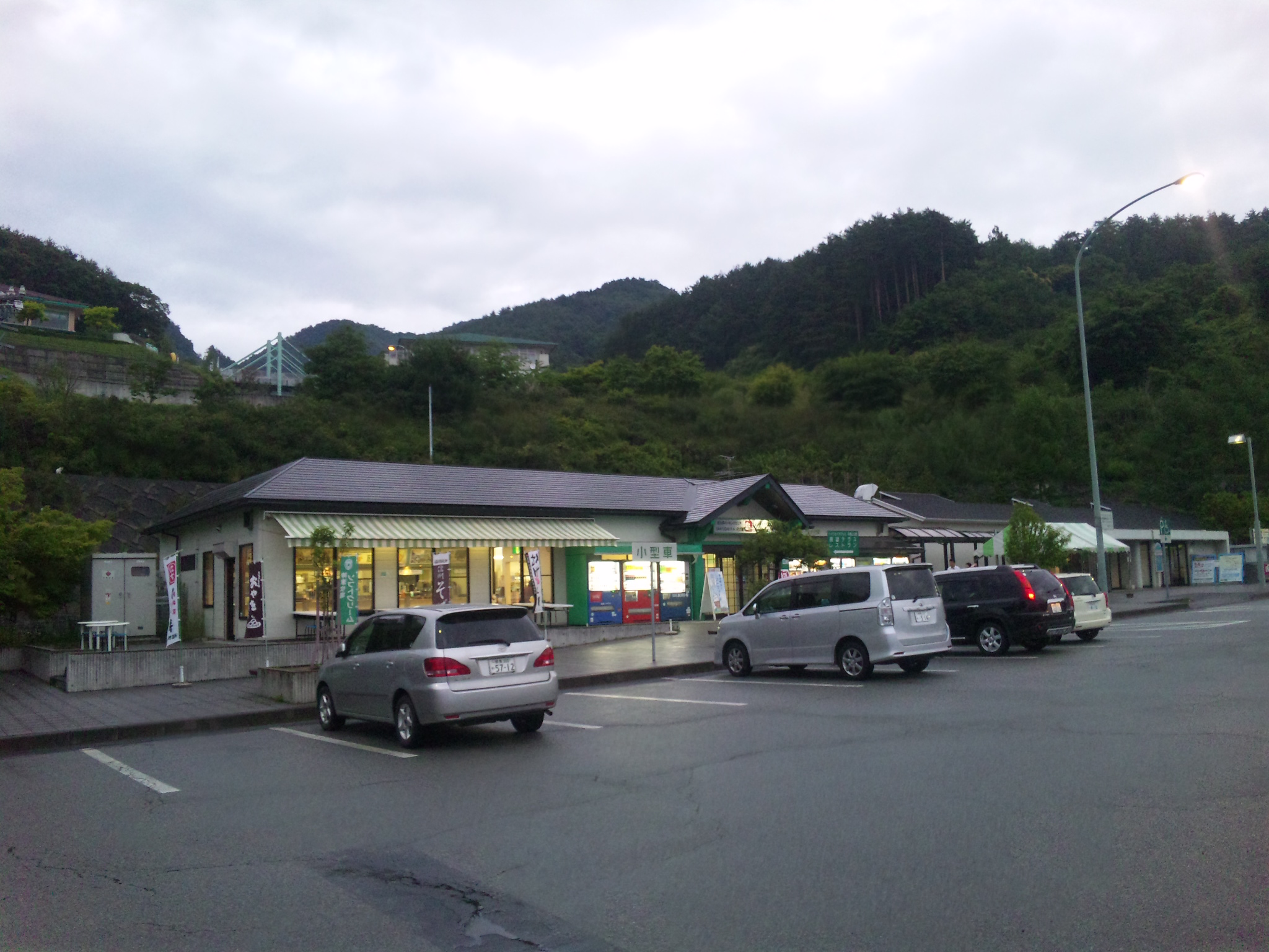 Sakudaira Parking Area